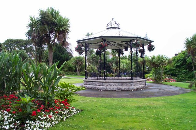 Morrab Gardens - Penzance. A fine sub tropical garden in the centre of Penzance.